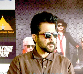 Anil Kapoor at Media meet of 'Welcome Back' in Delhi